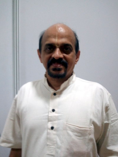 Vidyabhushana, a vocalist from Karnataka. ಕನ್ನಡ: ವಿದ್ಯಾಭೂಷಣ.